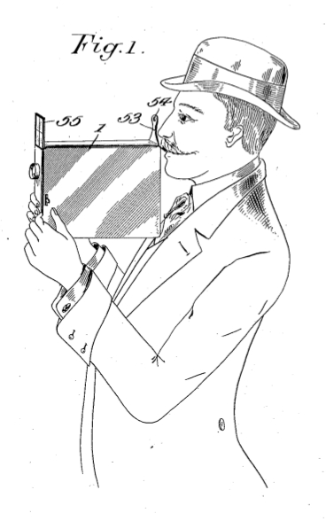 American patent of Aeroscope from 1913.